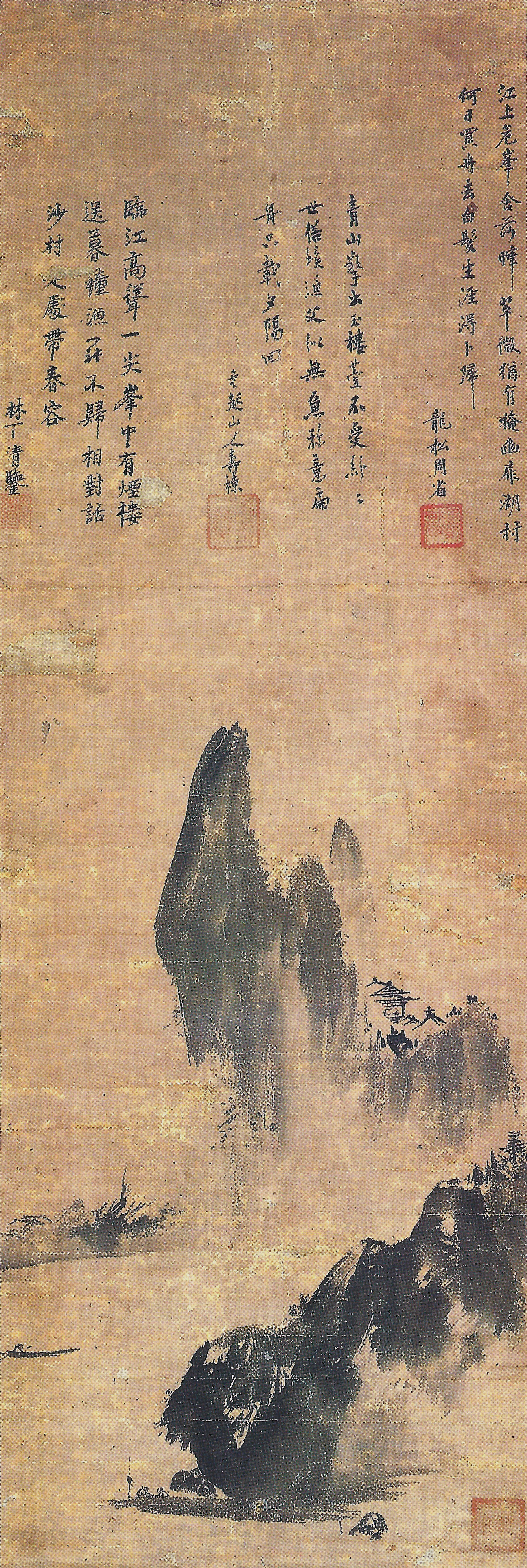 Landscape by Sesso (often thought to be Sesshu), Masaki Art Museum, Tadaoka, Osaka, Japan